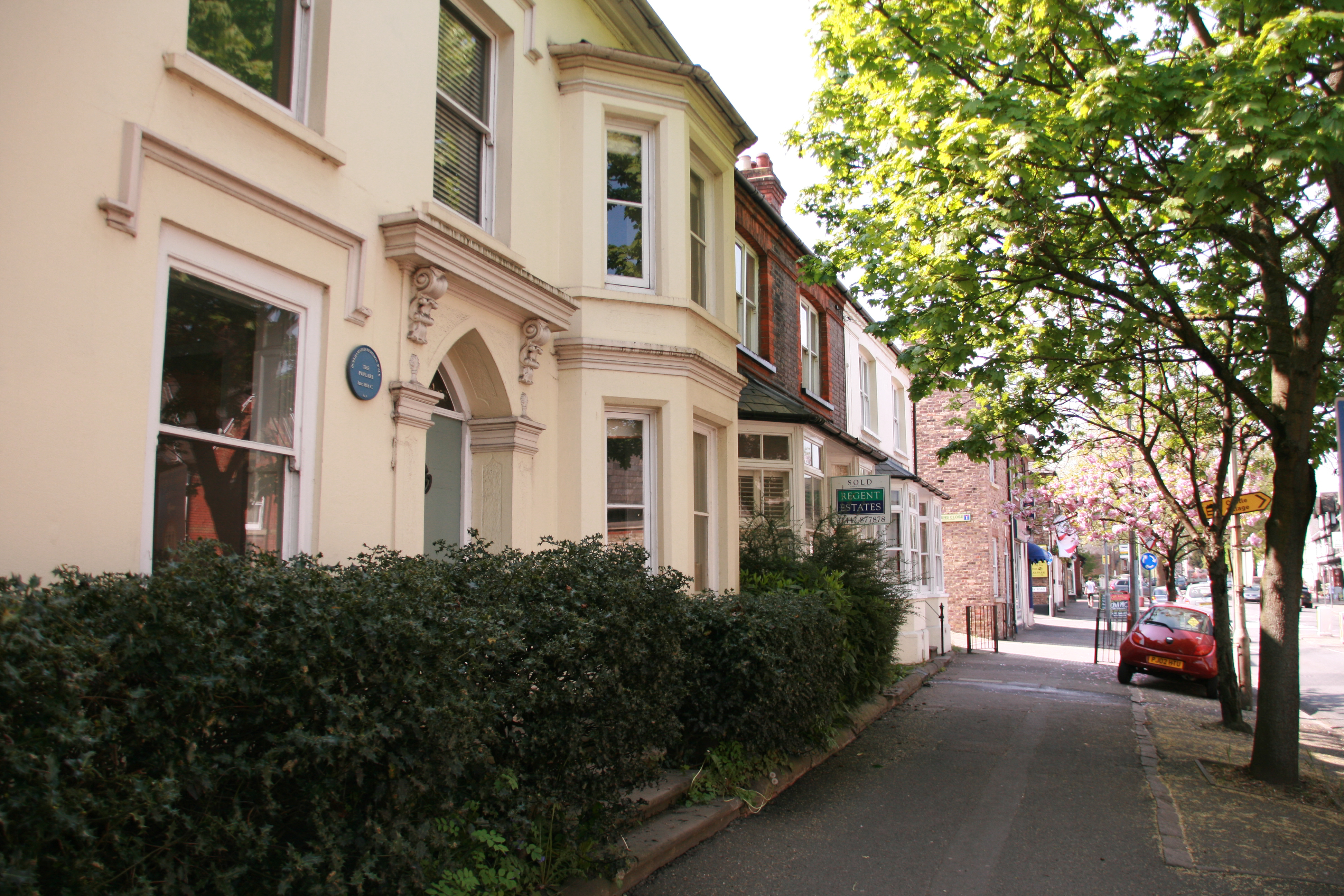 The Poplars, a 19th-Century house in Berkhamsted, Hertfordshire in the United Kingdom. It was the home of the sheep-dip entrepreneur William Cooper at the time of his death in 1885, and the actor Sir Michael Hordern was born here in 1911